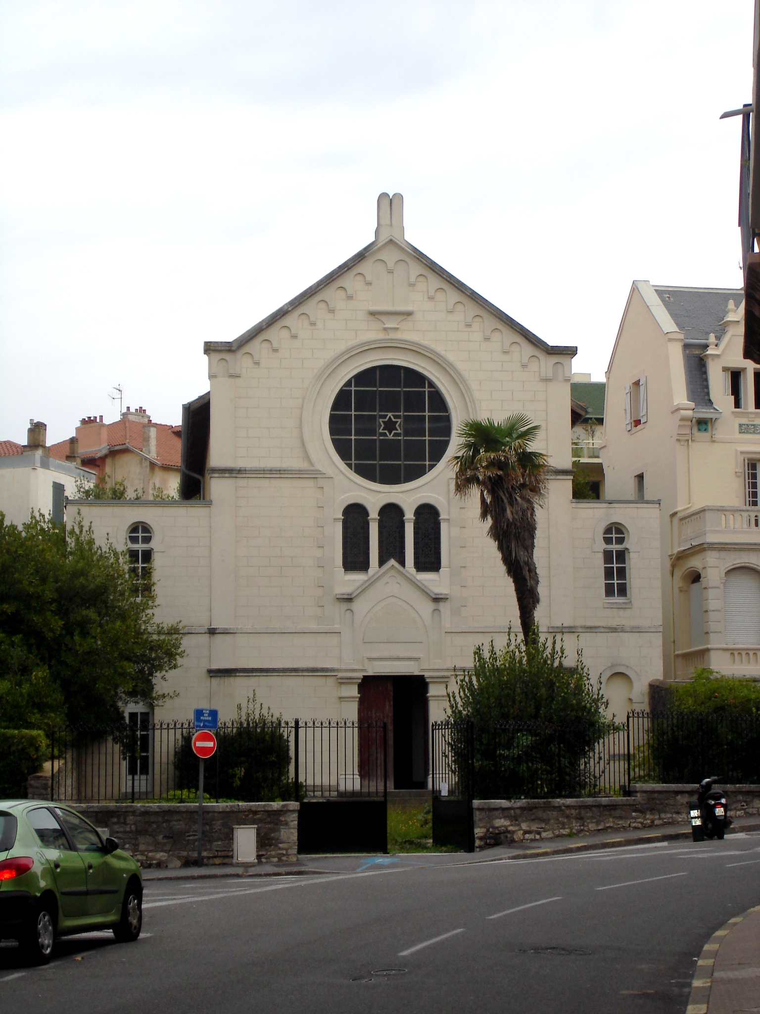 Synagogue of Biarritz (France). Presently close for renovation